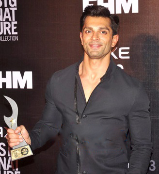 Karan Singh Grover at FHM Awards